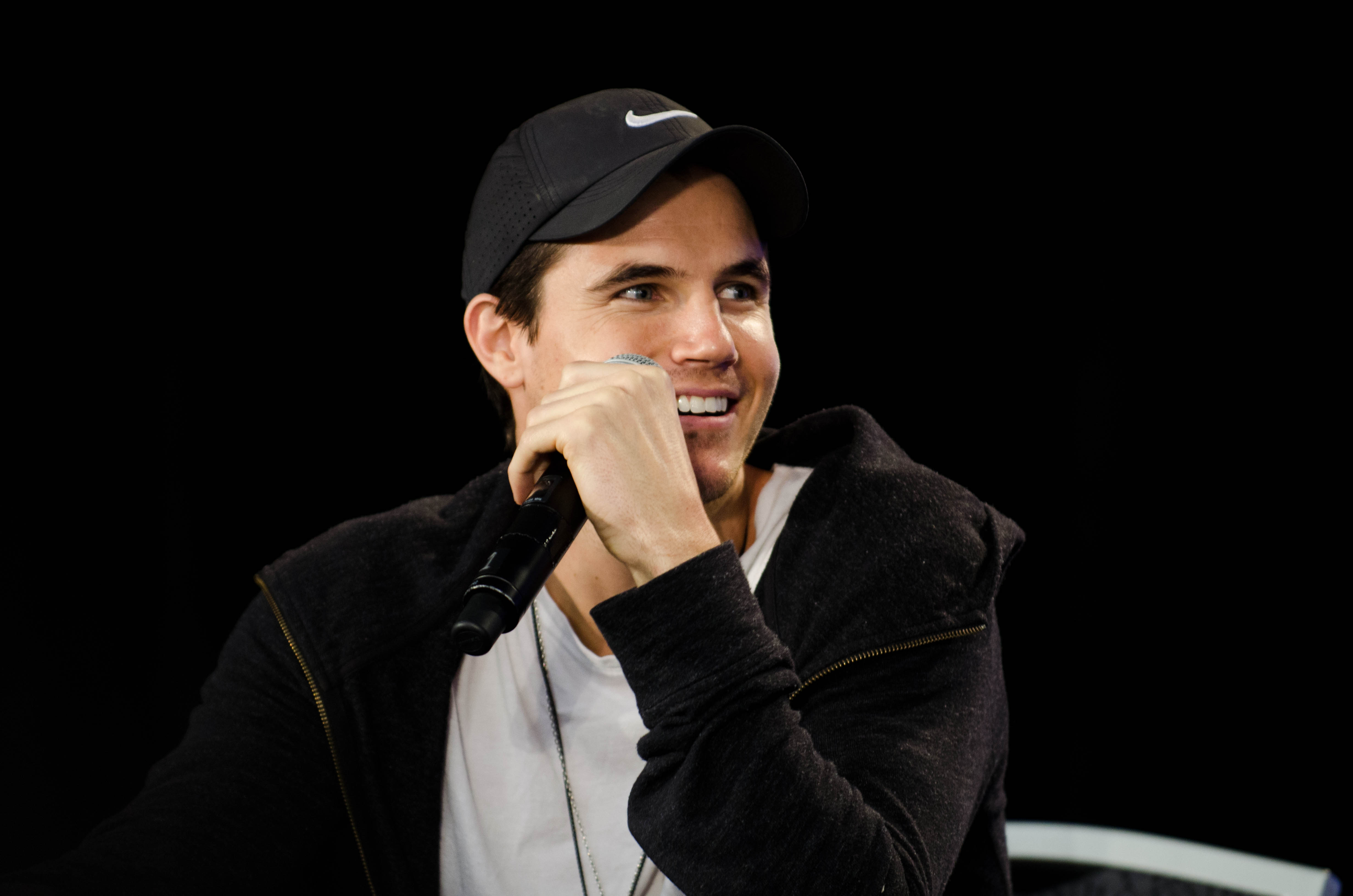 Heroes & Villains Fan Fest San Jose Convention Center November 21 & 22, 2015